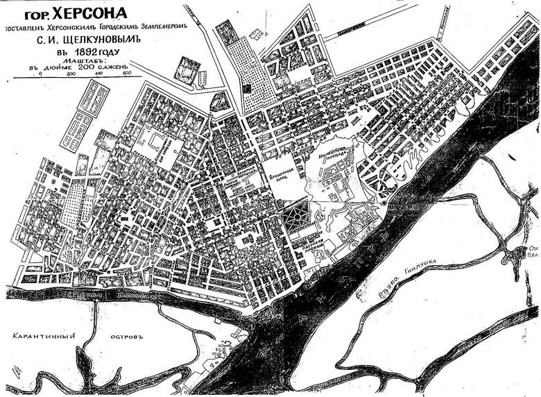 A late XIX century map of the town of Kherson